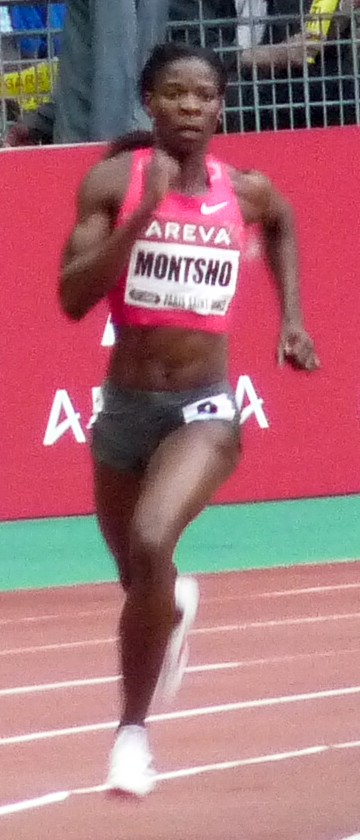 400 m féminin lors du Meeting Areva 2009. Amantle Montsho (BOT).